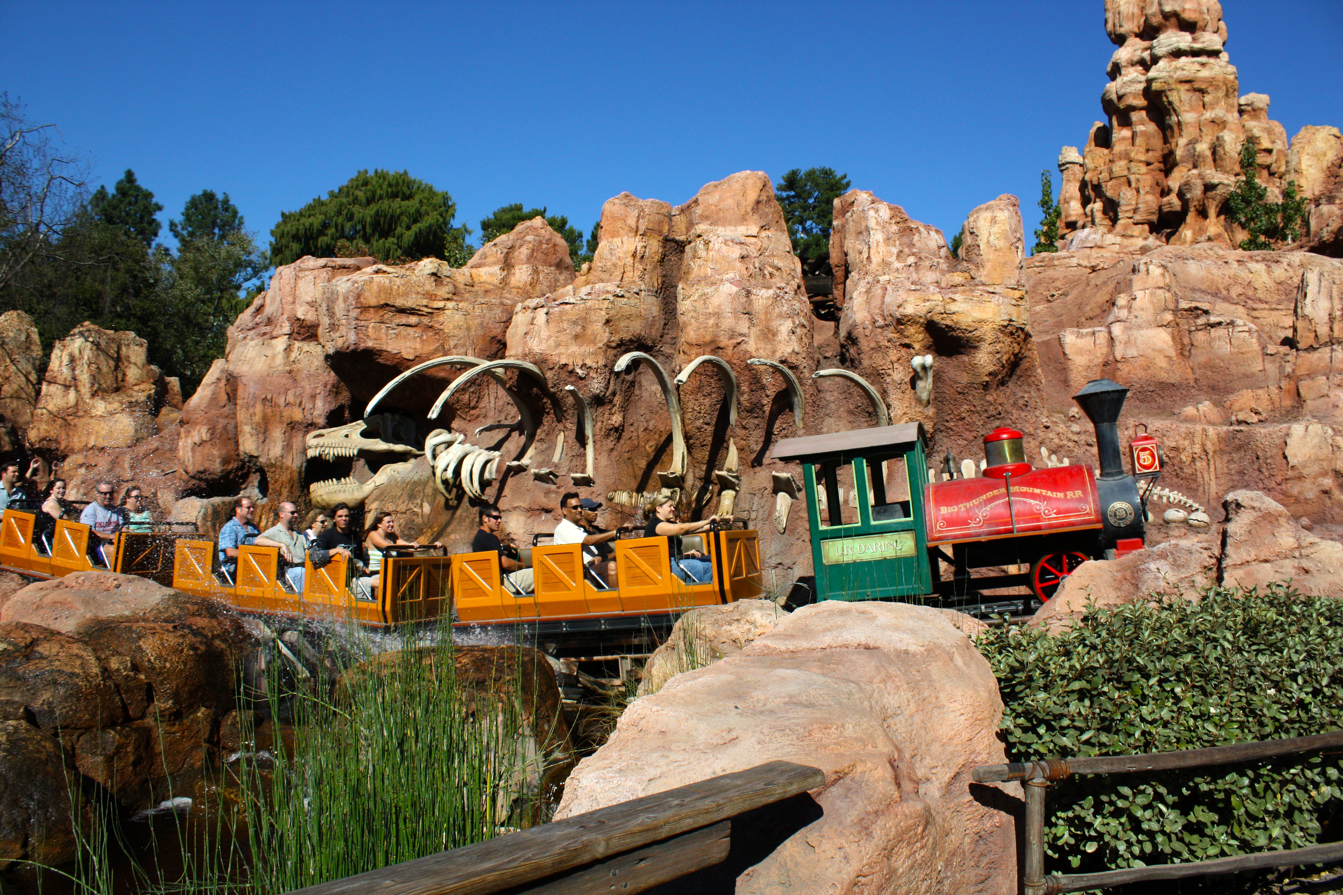 Big Thunder Mountain Train at Disneyland